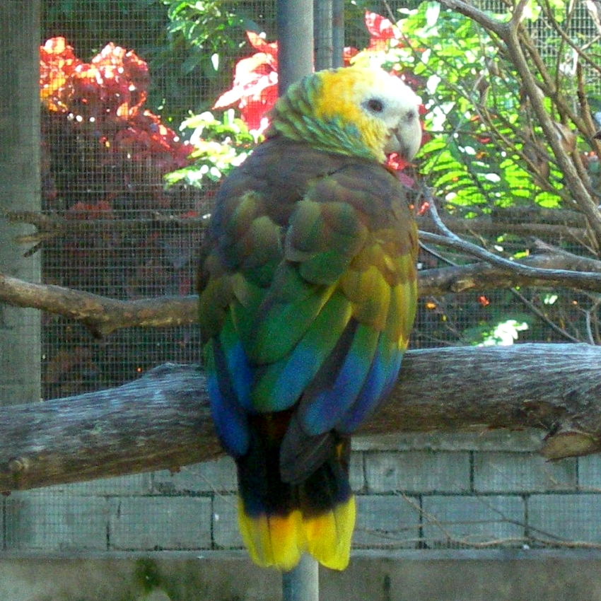 A St Vincent Amazon in the rehabilitation and breeding centre in the Botanical Gardens, Kingstown, on the island of Saint Vincent.